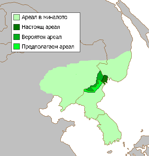 Amur Leopard distribution